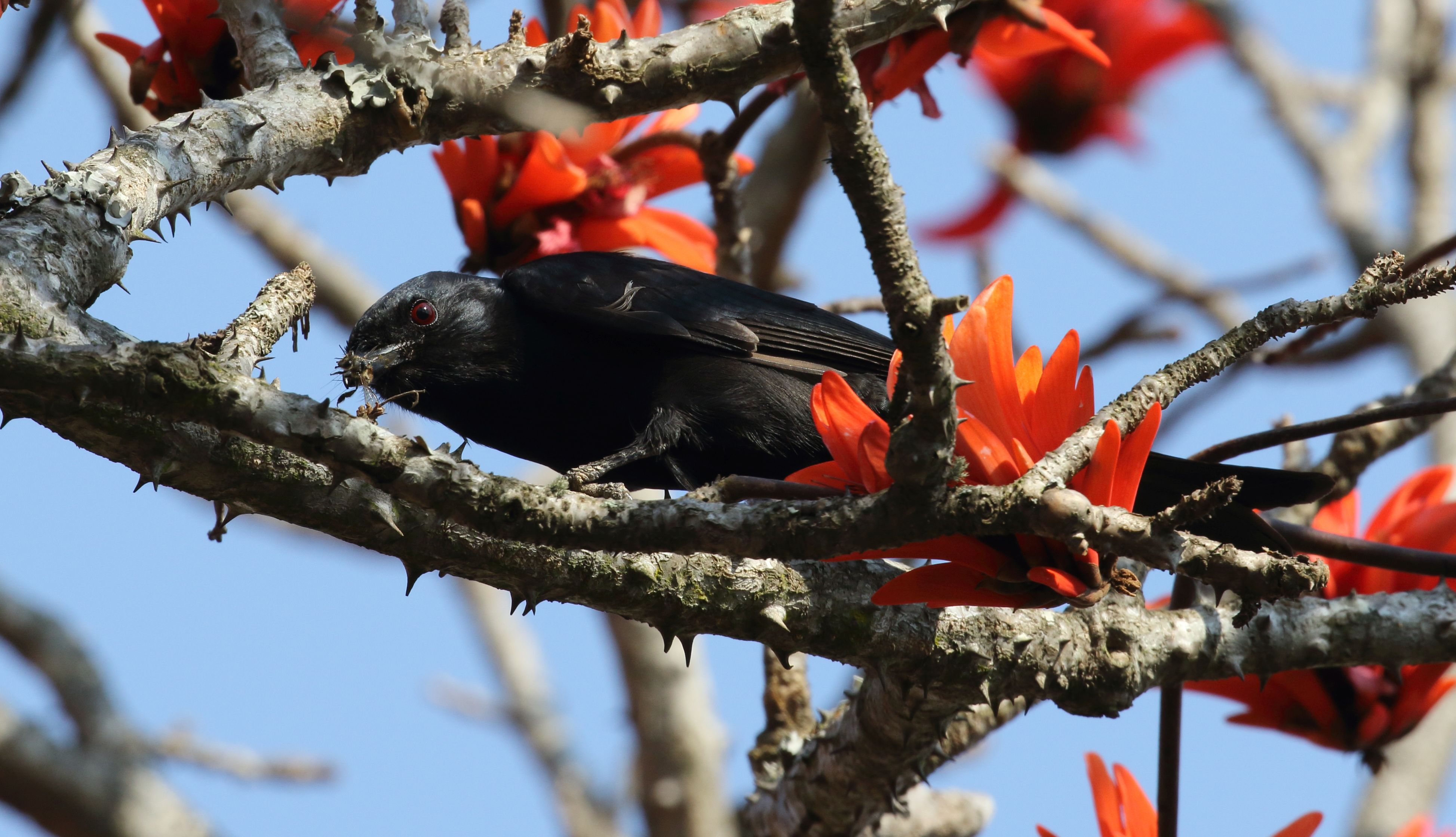 Fork-tailed Drongo Dicrurus adsimilis feeding on honey bees attracted to the flowers of Erythrina lysistemon. Ithala Game Reserve.